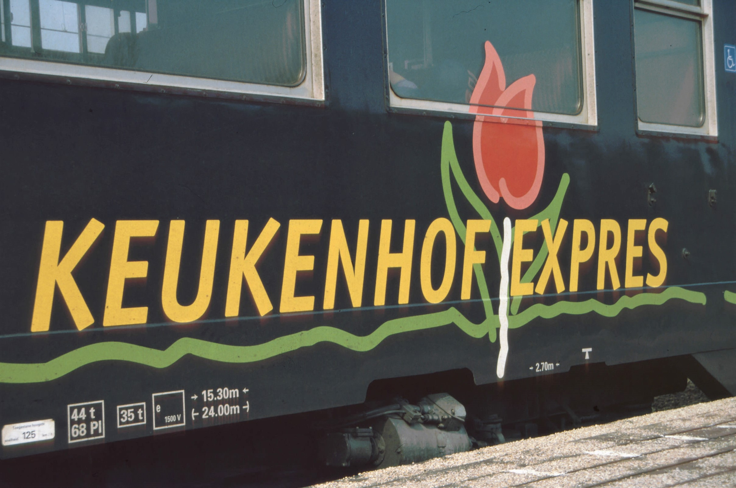 Logo van Lovers Rail Keukenhof Expres op M2-rijtuig op Station Lisse